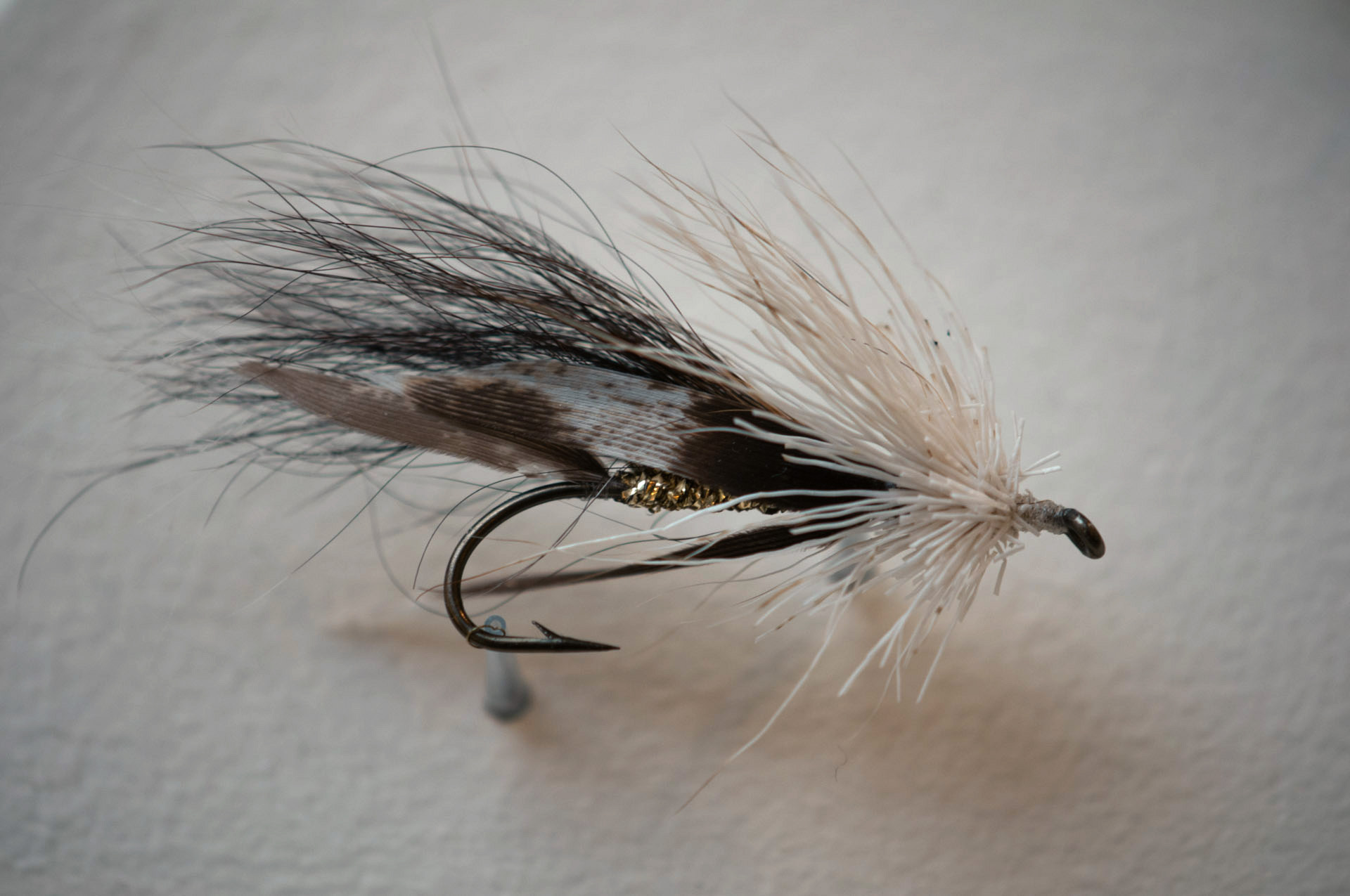 A Muddler Minnow fishing fly tied by Don Gapen, the originator of the pattern, and shot in the Catskill Fly Fishing Center and Museum, Roscoe NY